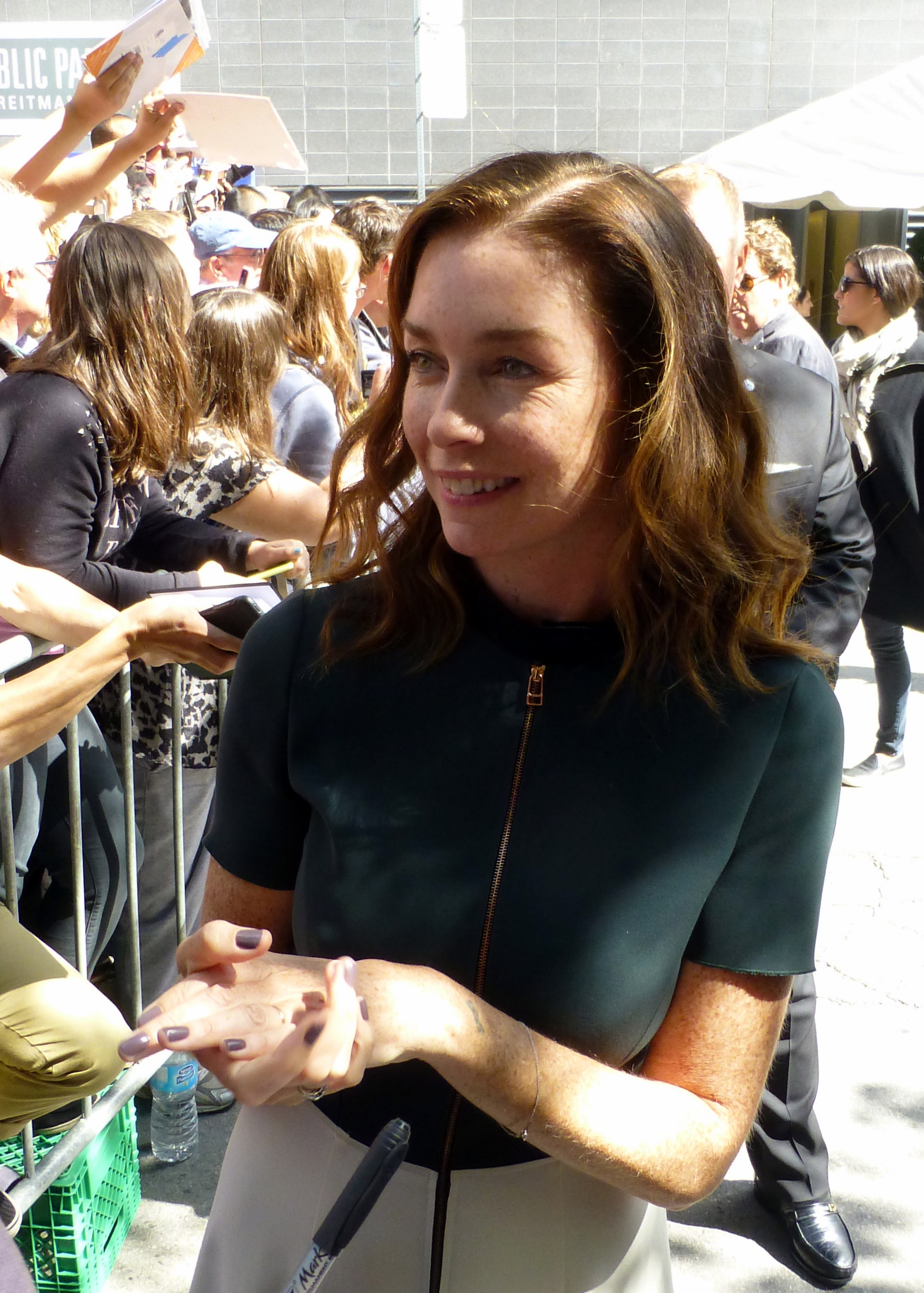 Julianne Nicholson at the press conference of Black Mass, 2015 Toronto Film Festival